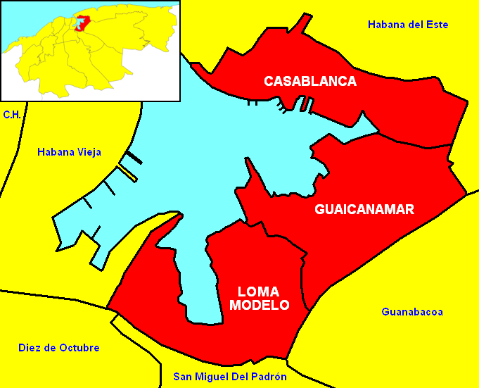 A map of the municipal borough of Regla (red) subdivided into its wards. In the corner a map of Havana showing the position of Regla.